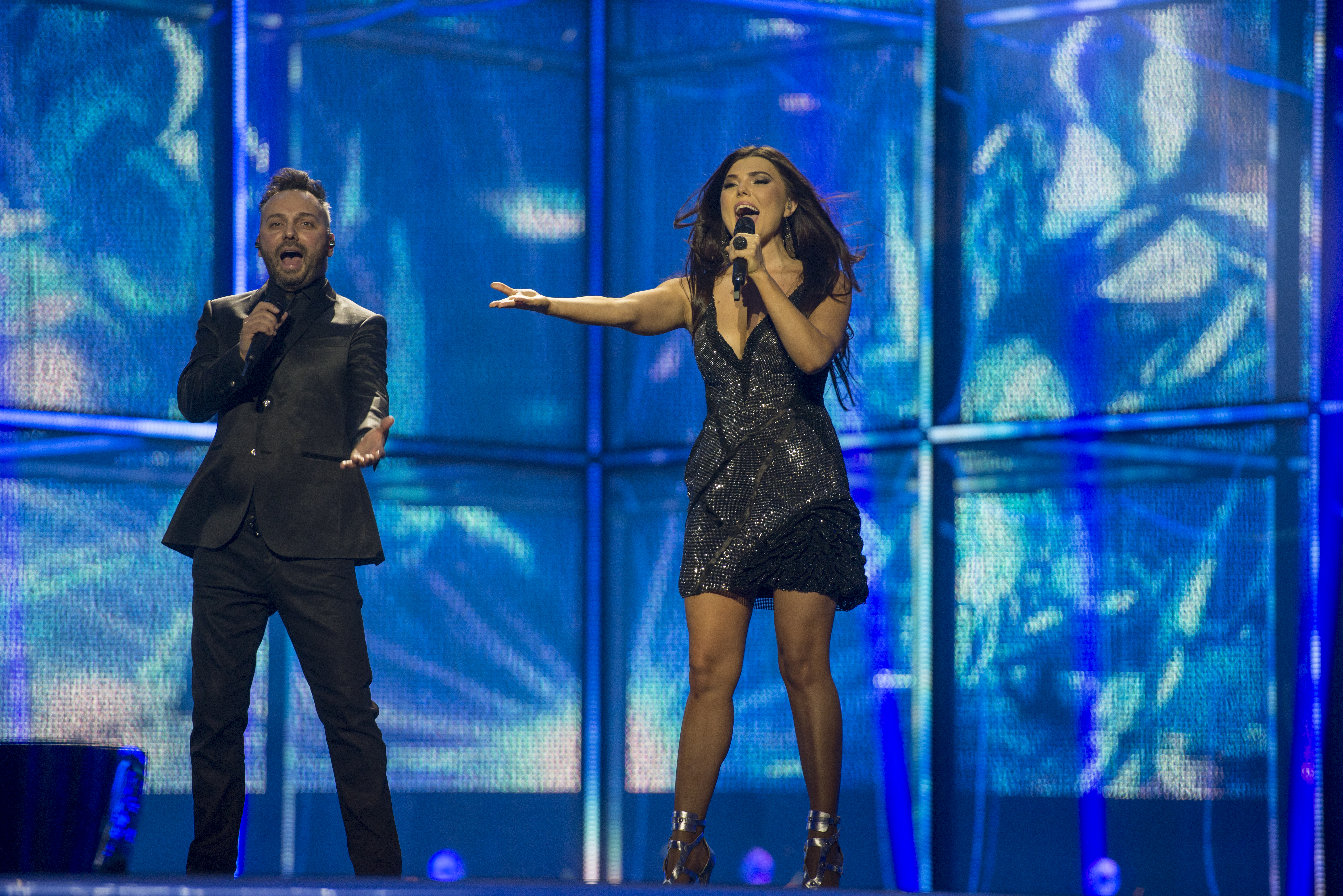 Paula Seling and Ovidiu Cernăuțeanu representing Romania with the song "Miracle" during the first dress rehearsal of the second semi final of the Eurovision Song Contest 2014 Copenhagen. (Help translate this text)